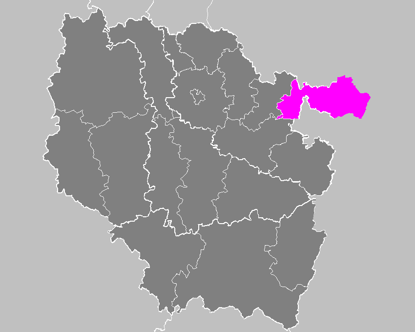 Maps of arrondissements and cantons of France: Arrondissement de Sarreguemines.PNG